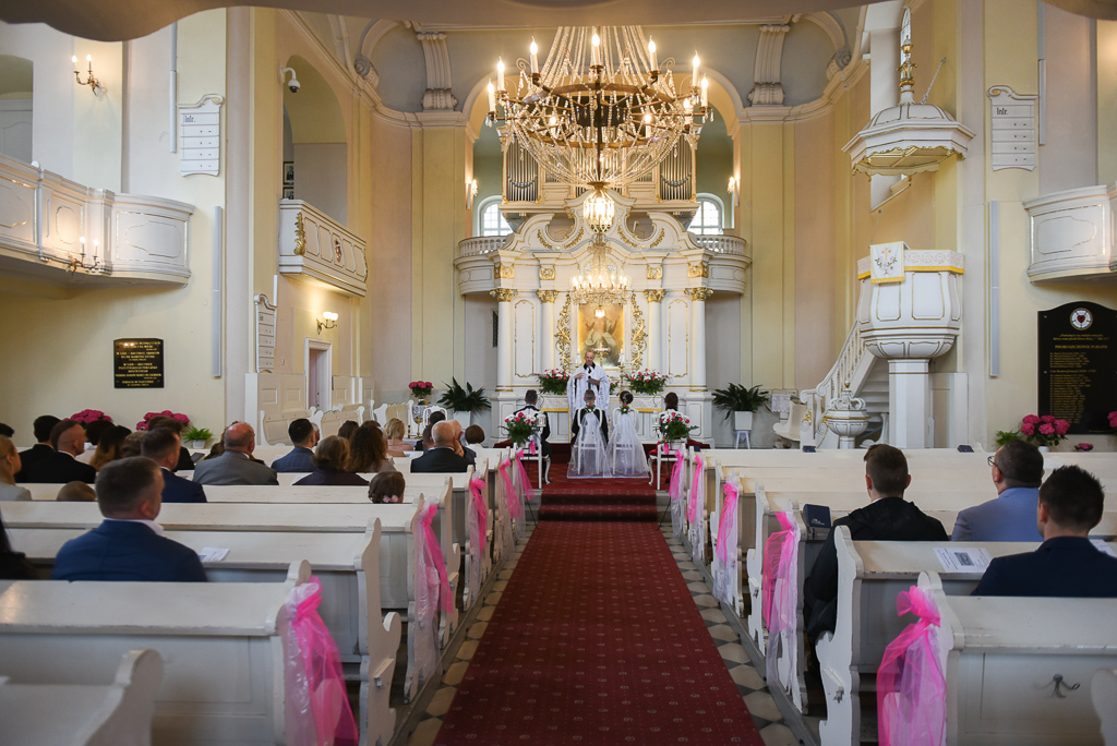 A photography of the interior of the Evangelical church in Pszczyna during wedding. View of the altar